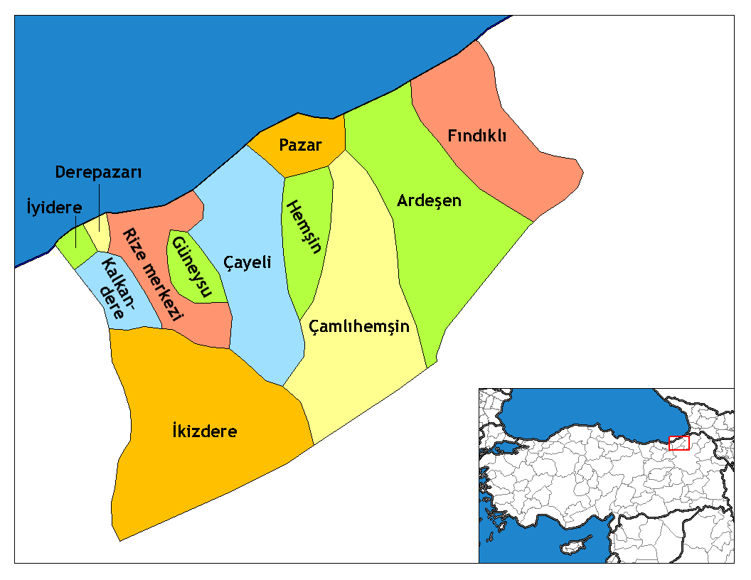 Map of the districts of Rize province in Turkey. Created by Rarelibra 17:12, 4 December 2006 (UTC) for public domain use, using MapInfo Professional v8.5 and various mapping resources. Edited by One Homo Sapiens Corrected text where İ,Ş,ı,ğ,or ş occurs in name. Source: [statoids-com]. Increased font size and enhanced color differences among adjacent districts.